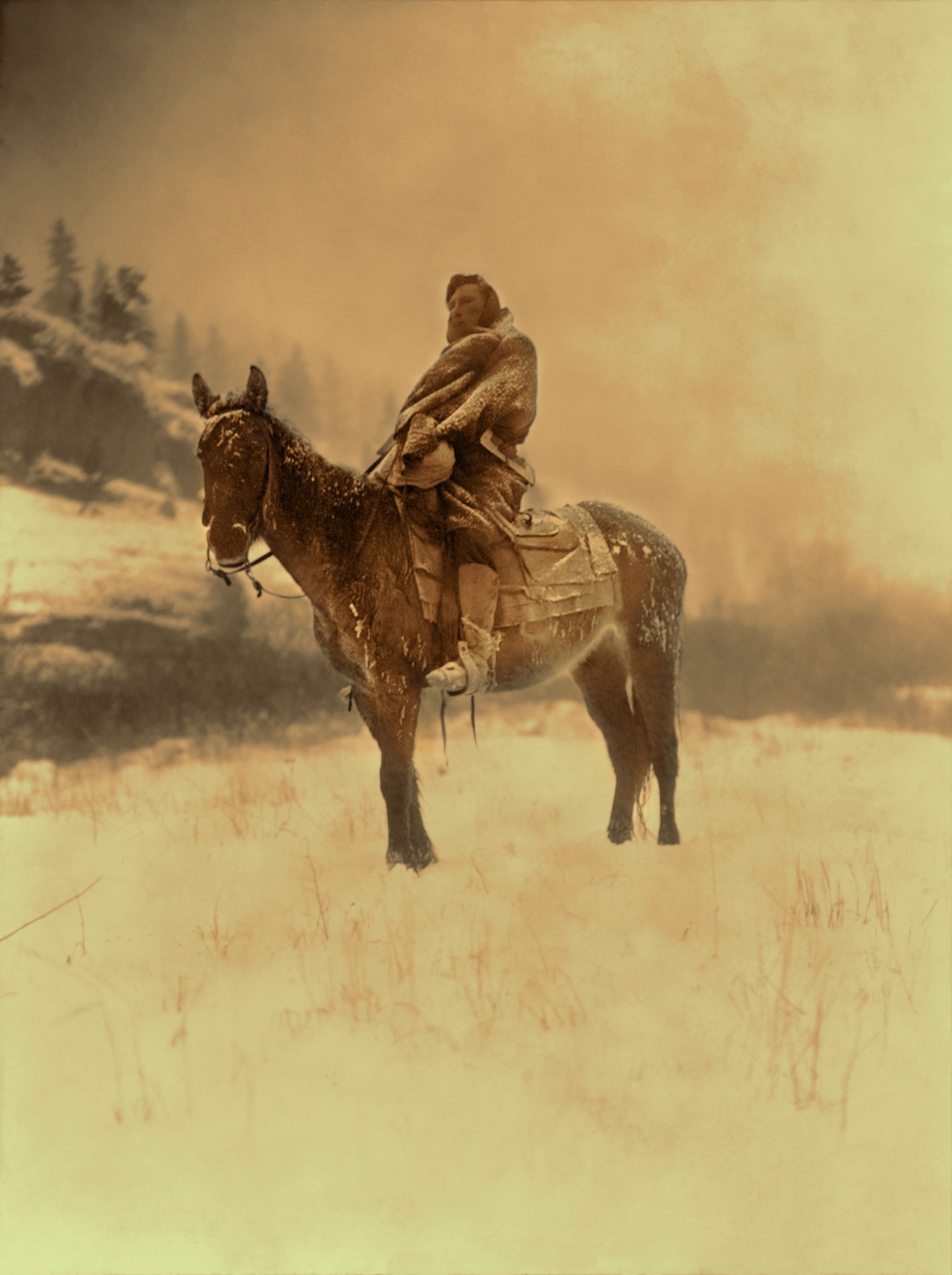 An Apsaroke (Crow tribe) man on horseback on snow-covered ground, probably in Pryor Mountains, Montana. Photographed by Edward Sheriff Curtis circa 6 July 1908. The original scan was made from a black and white film copy negative, and the final result was processed in Photoshop to emulate the Orotone printing process, which was one of Edward Curtis's favorite printing methods (source).